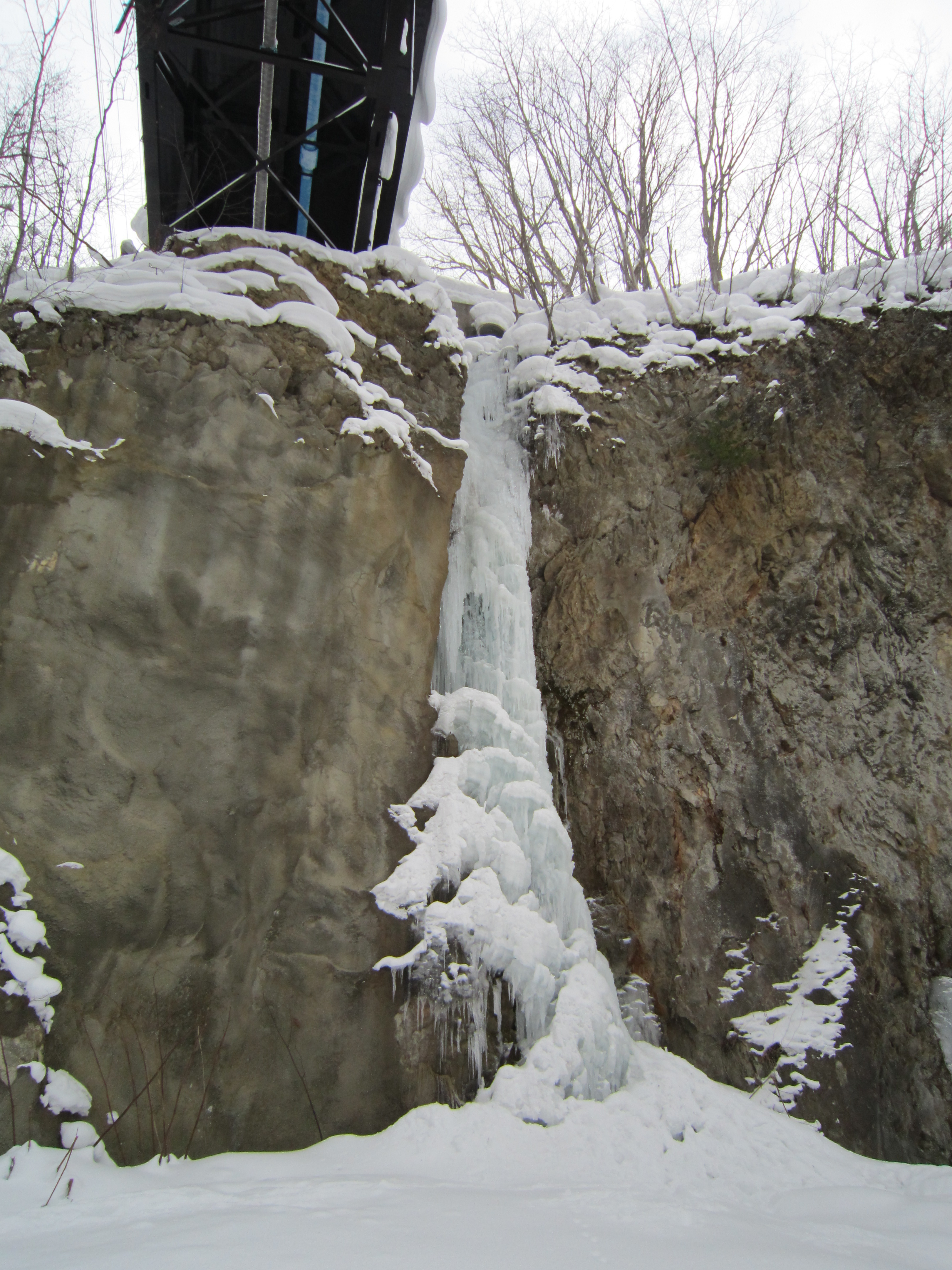 Jozan Pillar, an ice pillar under Shigure Bridge of Jozankei.